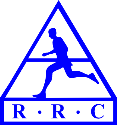 Logo of Road Runners Club (UK)